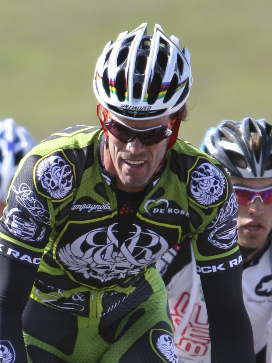 Mario Cipollini (Tour of California 2008)